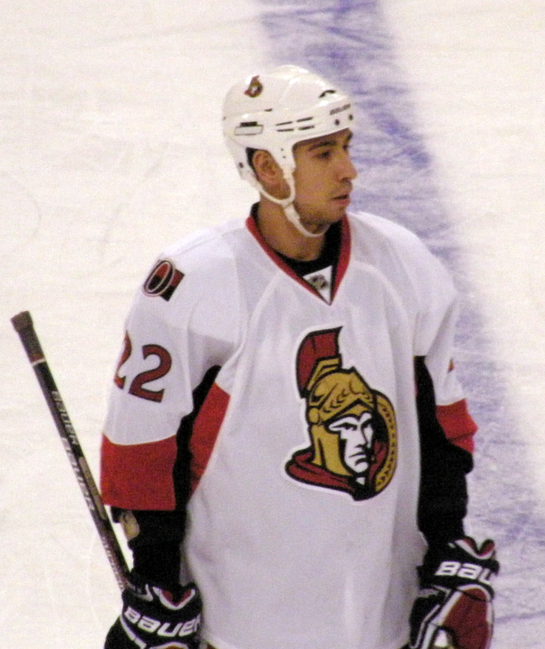 Chris Kelly (Ottawa Senators)